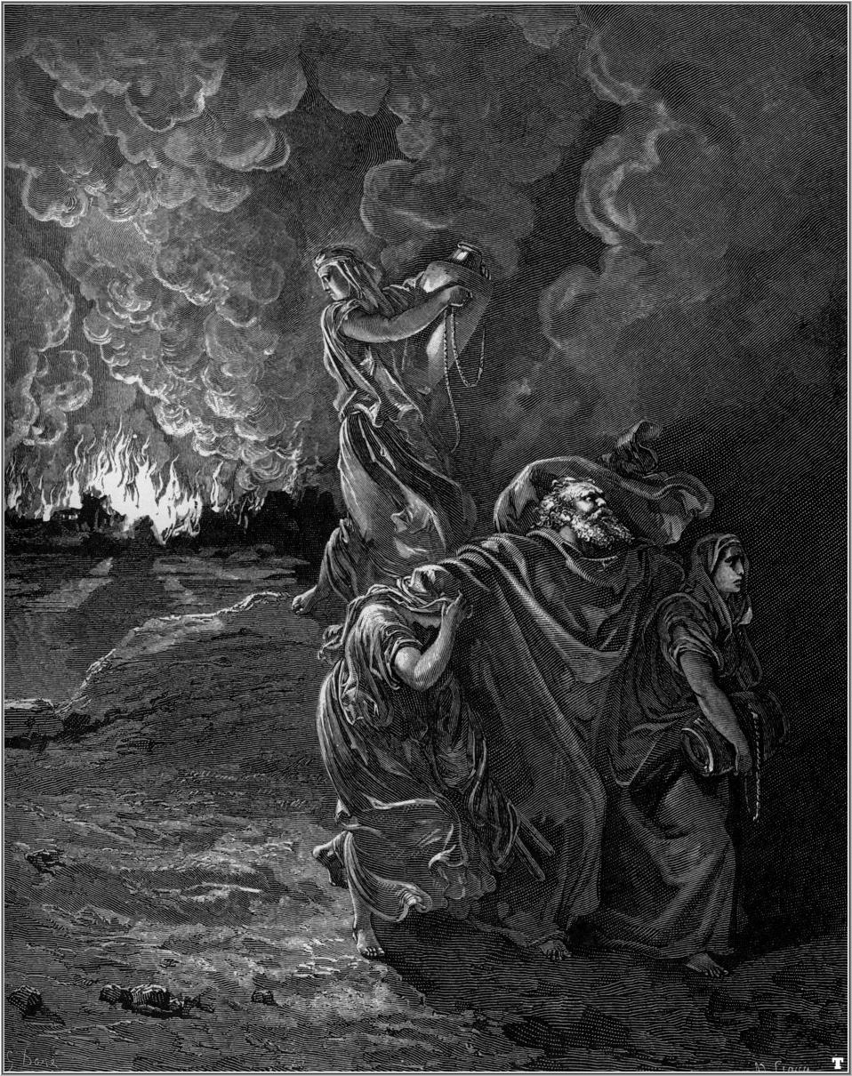 Part of Art by Gustave Doré, originally uploaded by Neutrality.